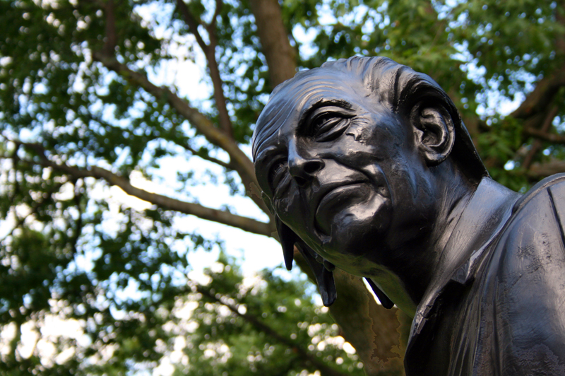 Memorial statue of Alfred Purdy, by Edwin and Veronica Dam de Nogales. 2008 Purdy, who died in 2000 at the age of 82, was a member of the Order of Canada and a two-time winner of the Governor General's Award for his collections of poetry.In 2001, husband-and-wife sculptors Edwin and Veronica Dam de Nogales of Highgate, Ont., were hired by art philanthropist Scott Griffin and poet Dennis Lee to create a statue. From Paul Vermeersch: "Al Purdy, the man widely regarded as Canada's first true national poet, died in April, National Poetry Month, in the year 2000. In a way, his death marked the end of a century in which the Canadian cultural identity – under pressure from separatist tensions, two world wars, the rapid development of the mass media and the sensation of being a young nation adrift between older colonial powers and our newer imperialist neighbour – experienced its most profound growing pains. No other poet was as resolute in addressing those pains as Alfred Wellington Purdy. He did so not only by writing about the issues head-on, but also by listening to the people around him, by writing a poetry rooted in the daily life of the people and places of the Canada he knew and loved, from sea to sea to sea. He was writing poems that were relevant to Canadians, and, for over forty years, Canadians listened."